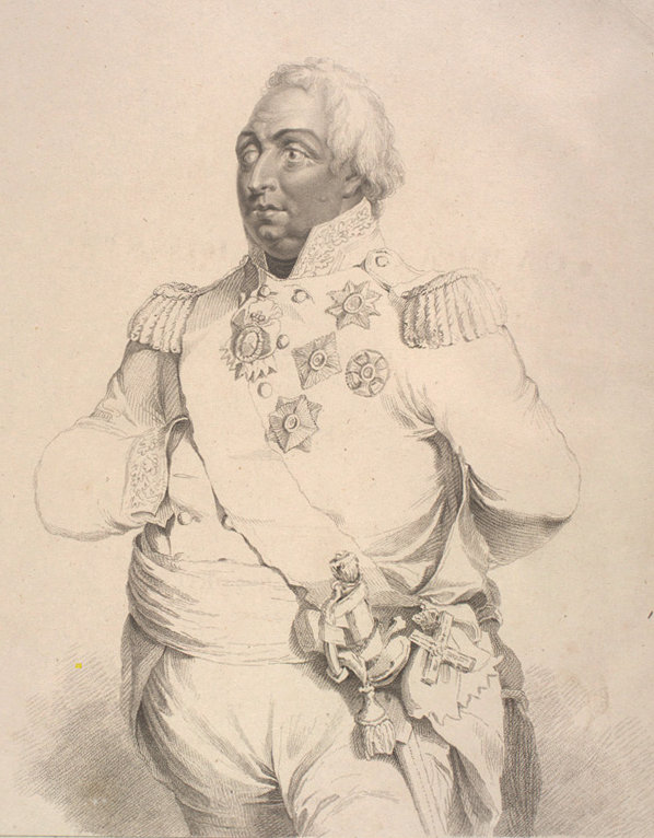 Russian Field Marshal Mikhail Kutuzov, Prince of Smolensk (1745-1813). Engraved by Hopwood, from an original drawing